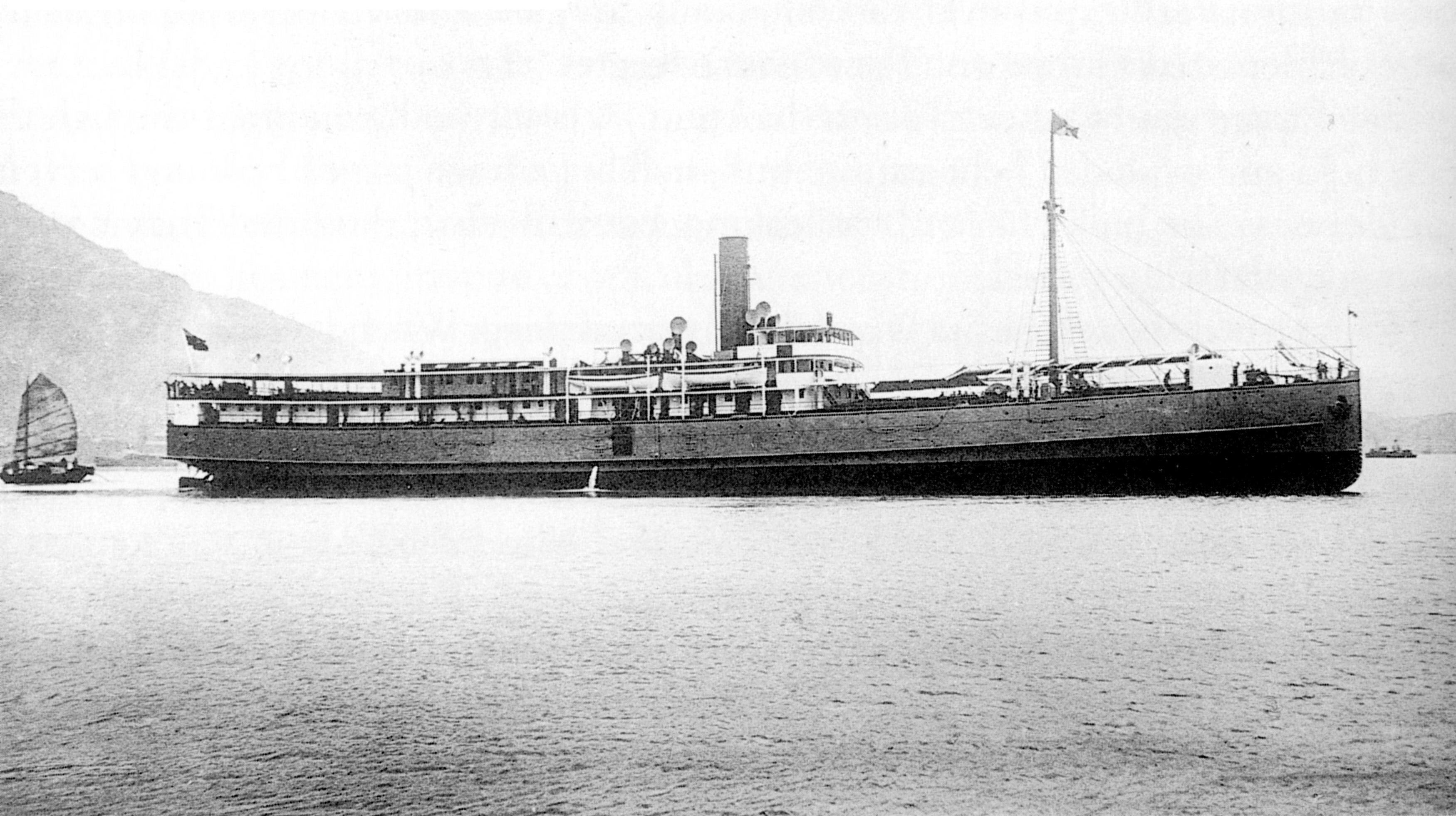 China Navigation Co river steamer SS Whang Pu: starboard side view